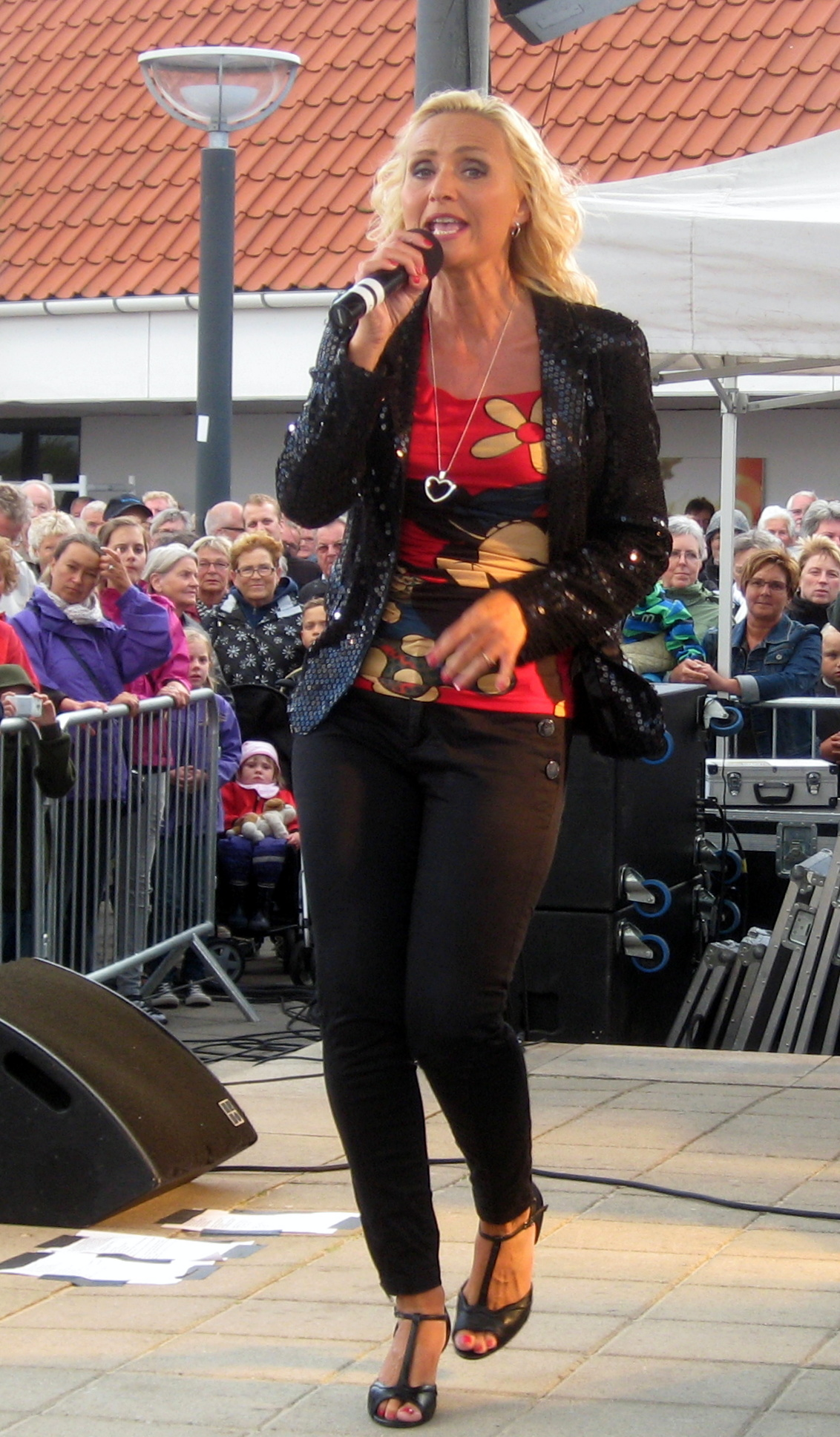 Lise Haavik, a Norwegian singer, performing in Blokhus, Denmark, 2012